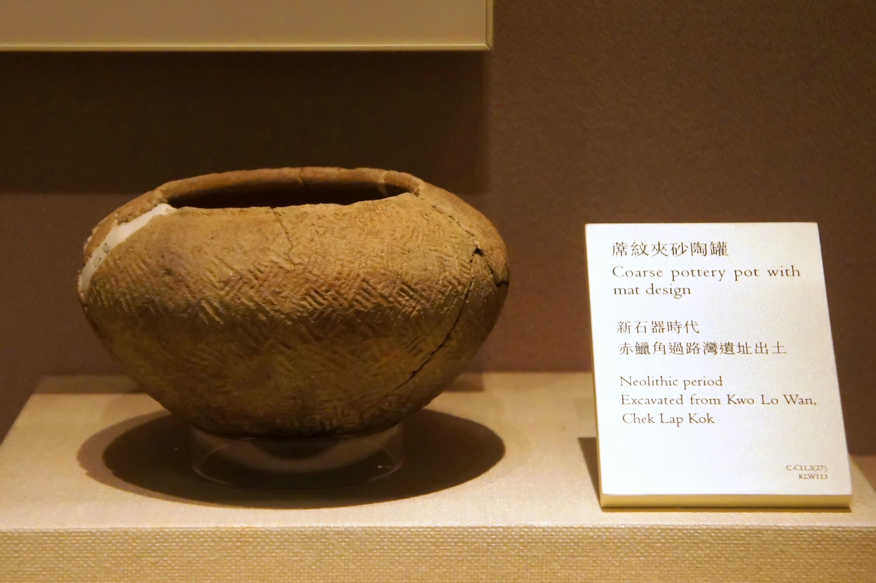 Coarse pottery pot with mat design Neolithic period Excavated from Kwo Lo Wan, Chek Lap Kok An exhibit of the Hong Kong Museum of History